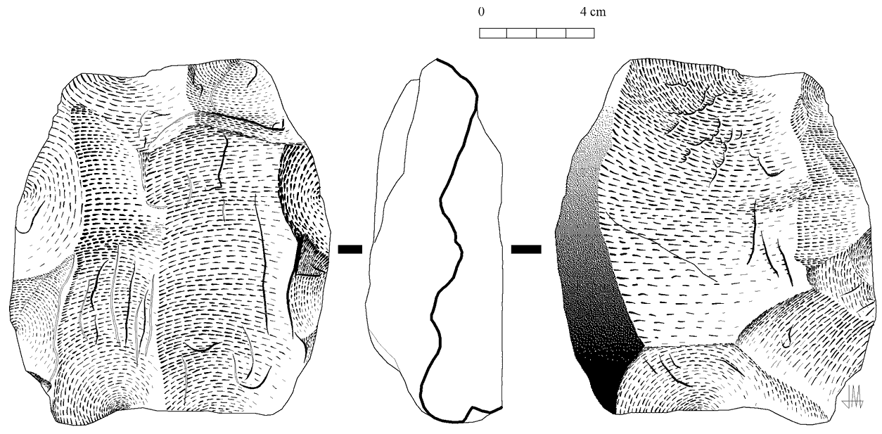 Levallois core for blades from Acheulean period (Douro basin).